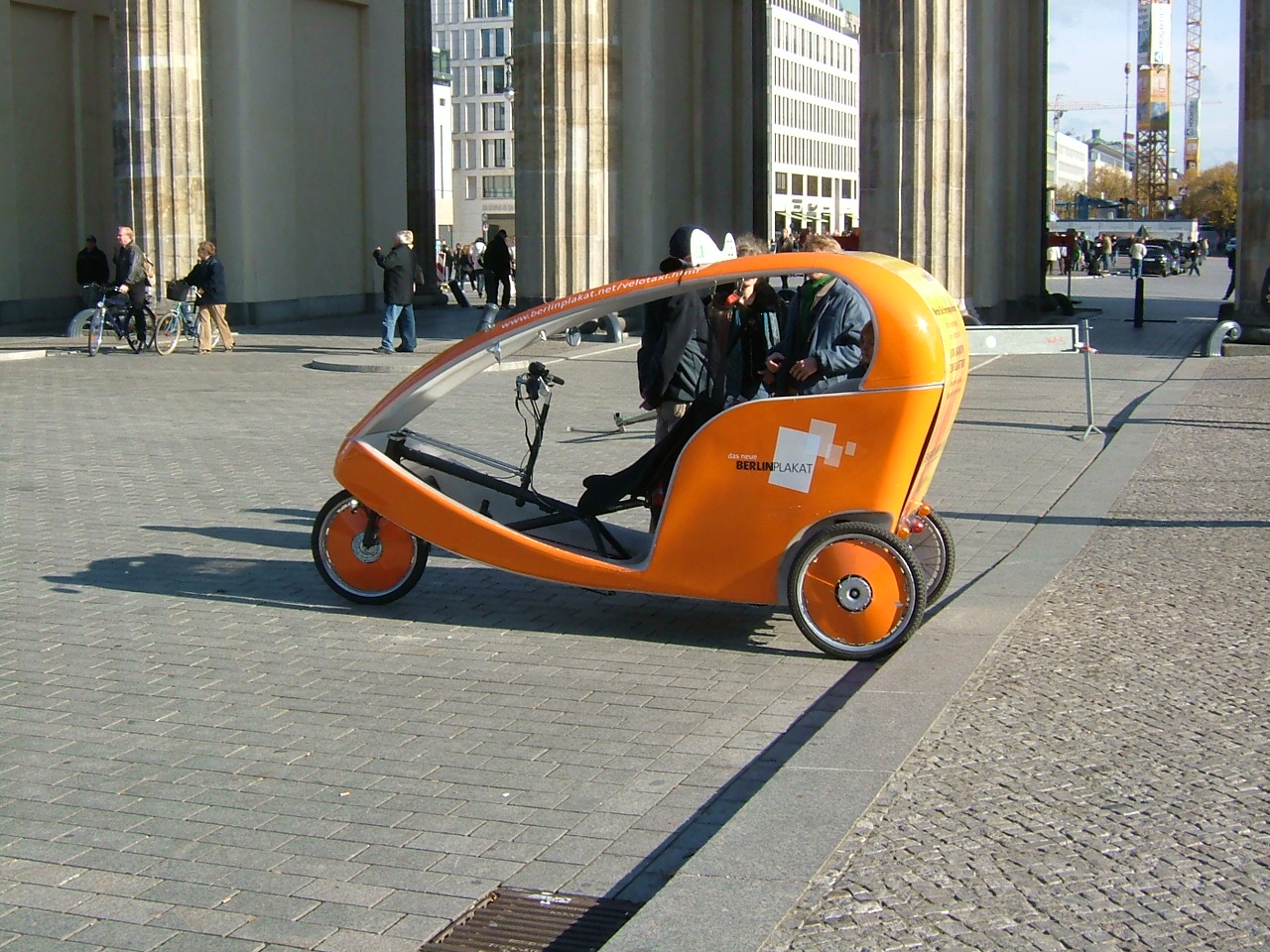 Velotaxi ricksahw in Berlin.